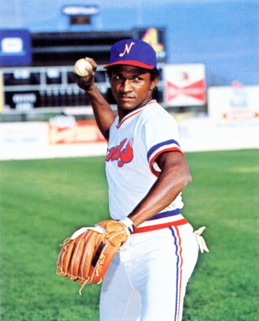 Shortstop Otis Nixon of the 1981 Nashville Sounds Minor League Baseball team of the Southern League